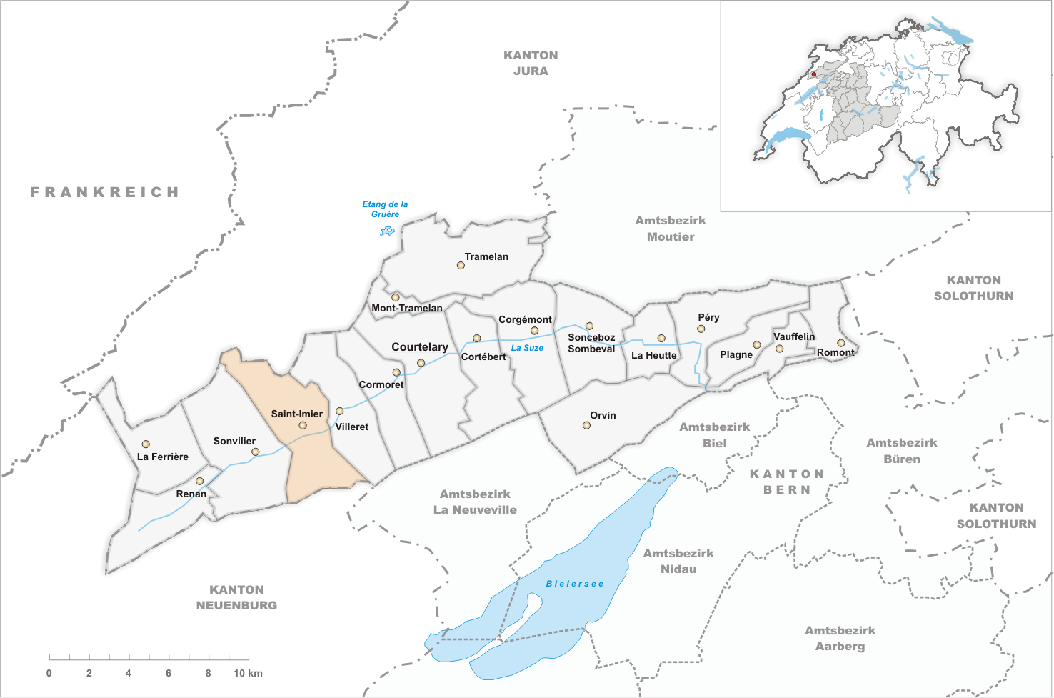 Municipality Saint-Imier